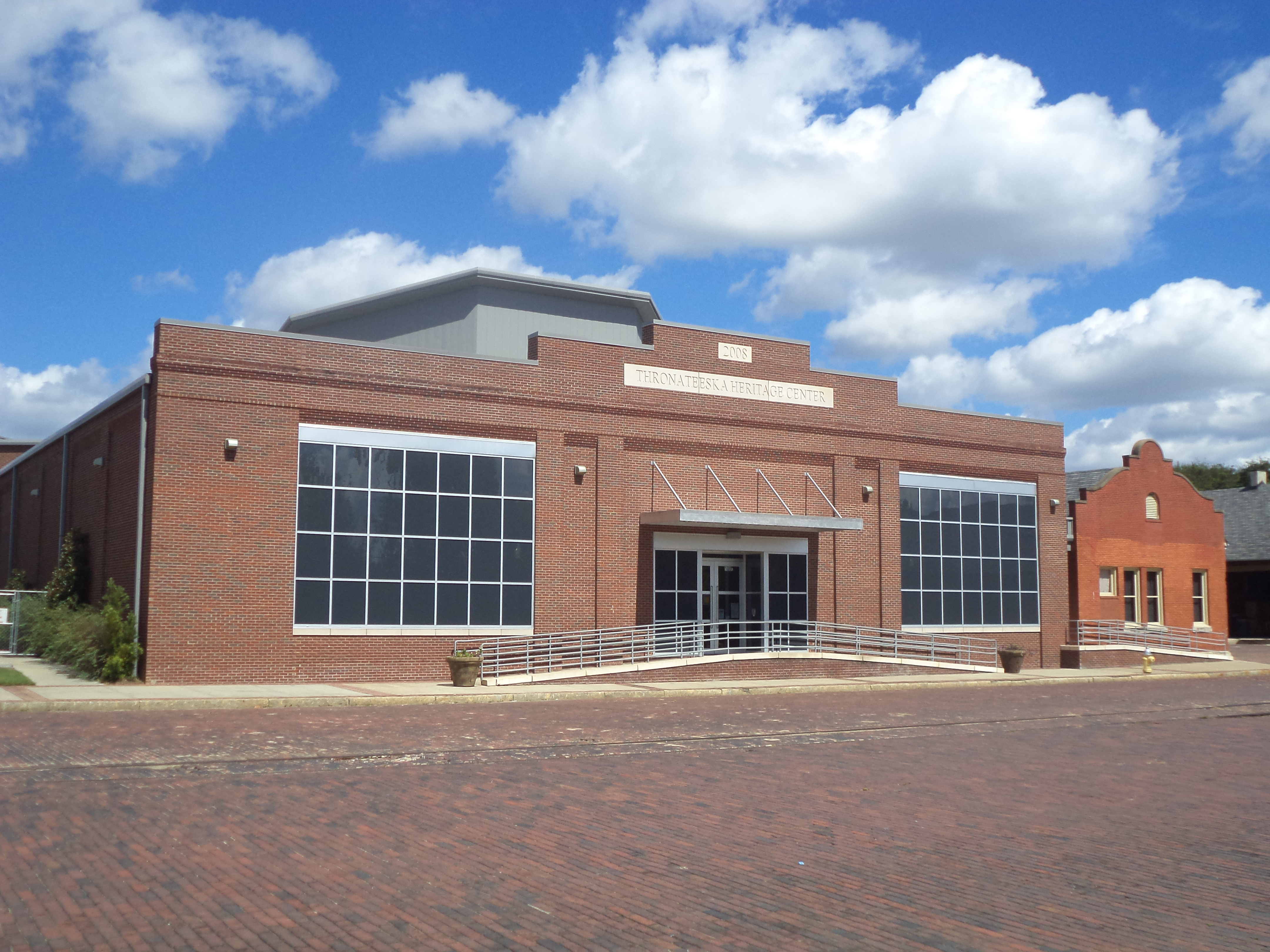 Thronateeska Heritage Center, Roosevelt Ave, Albany, Dougherty County, Georgia